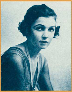 Publicity photo of Irene Castle from Who's Who on the Screen